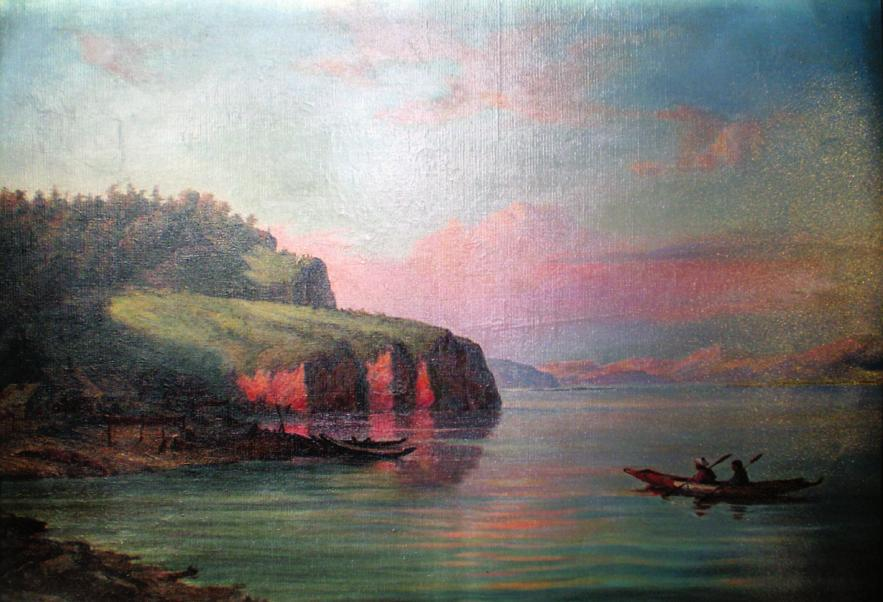 Yegor Yegorovich Meyer (1822-1867) was painter and graphic artist. He studied at the Imperial Academy of Arts (1838–45) and was awarded a major gold medal and the title of fourteenth-class artist in 1845.